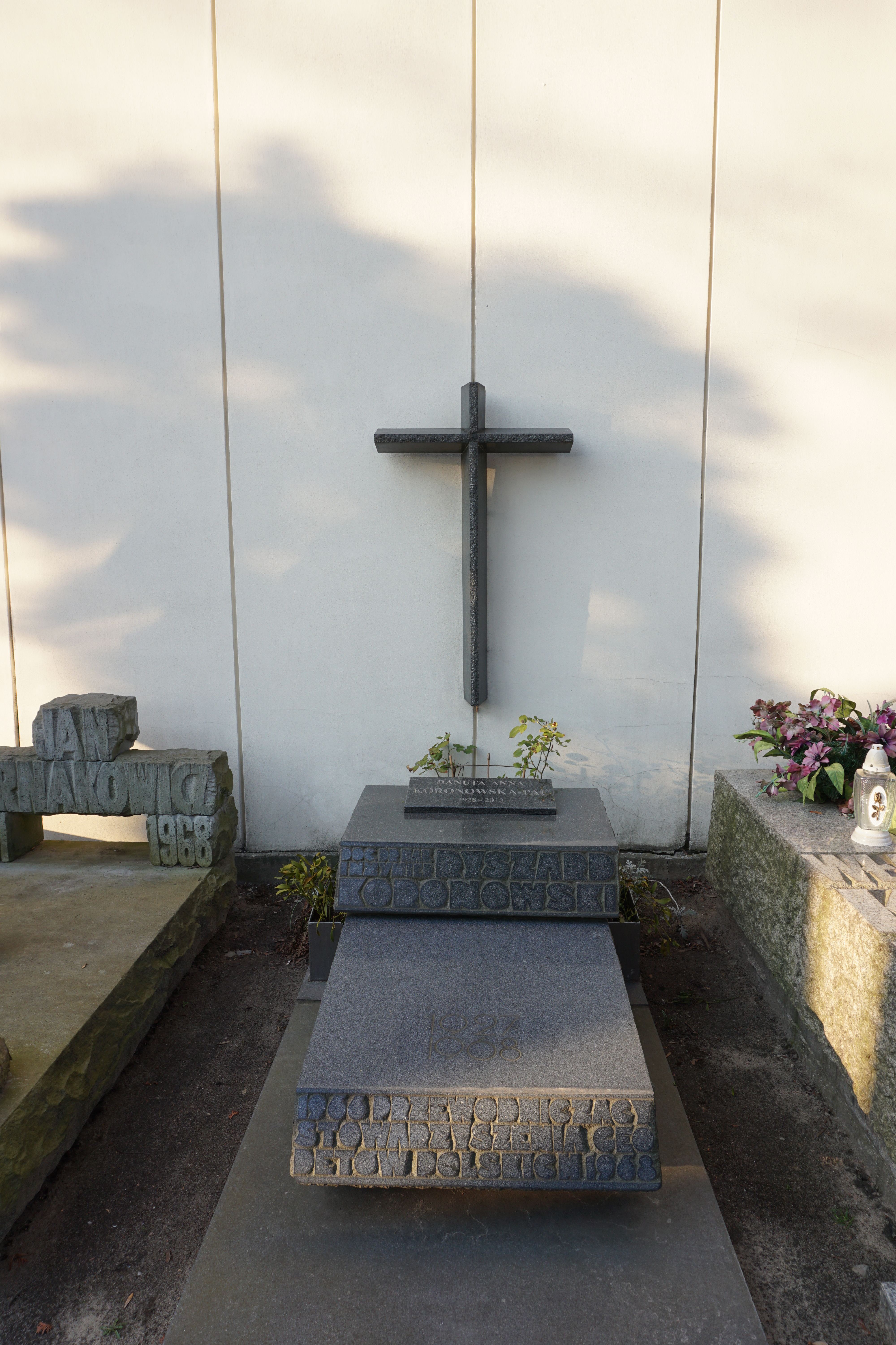 The grave of Ryszard Koronowski at the Powązki Cemetery (Avenue of Deserved, grave 156)